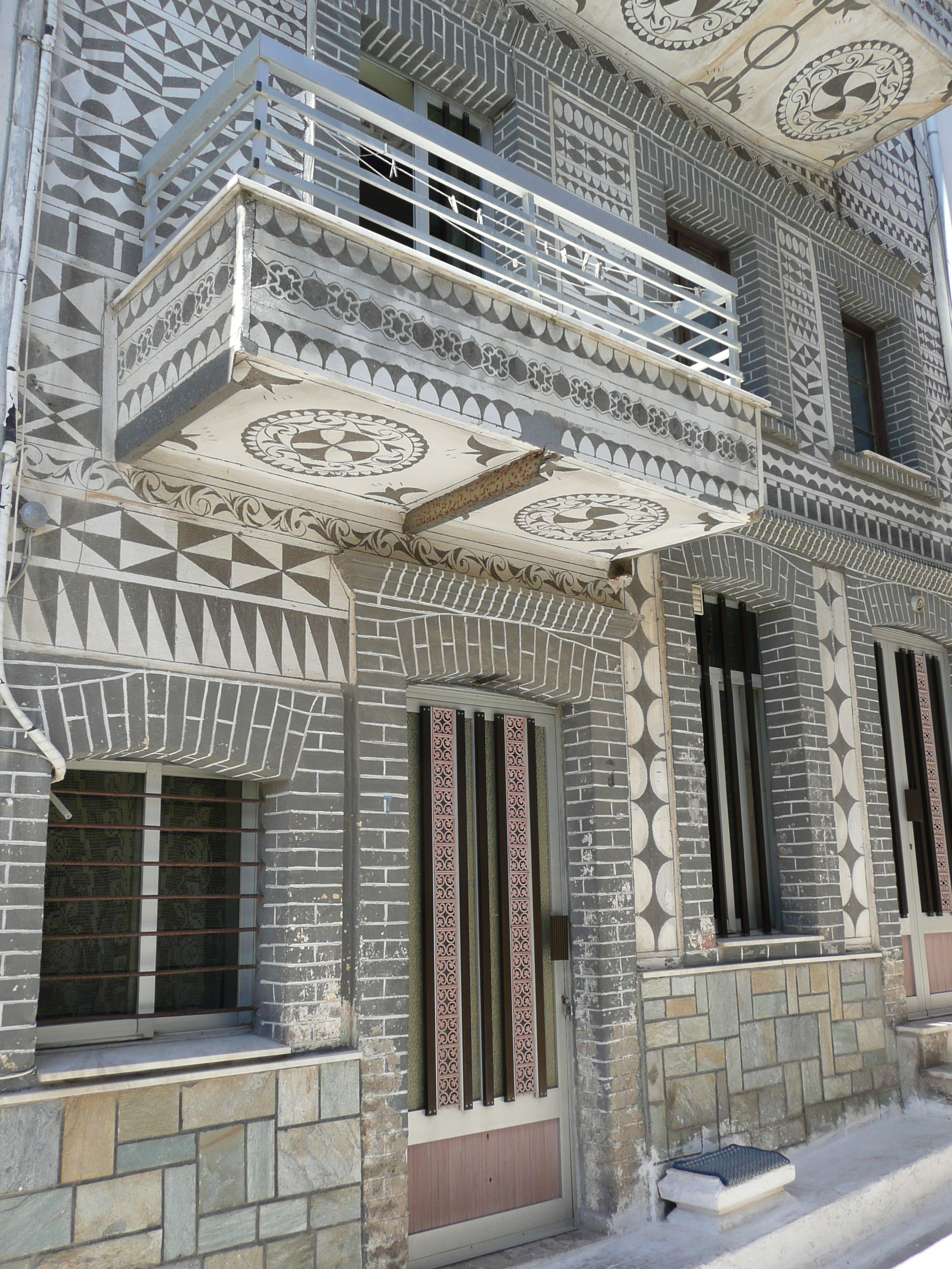 Building of Pyrgi, Chios island